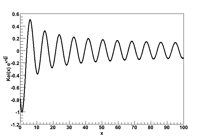 A plot of K e i ( x ) e x / 2 {\displaystyle \mathrm {Kei} (x)e^{x/{\sqrt {2 between 0 and 100.